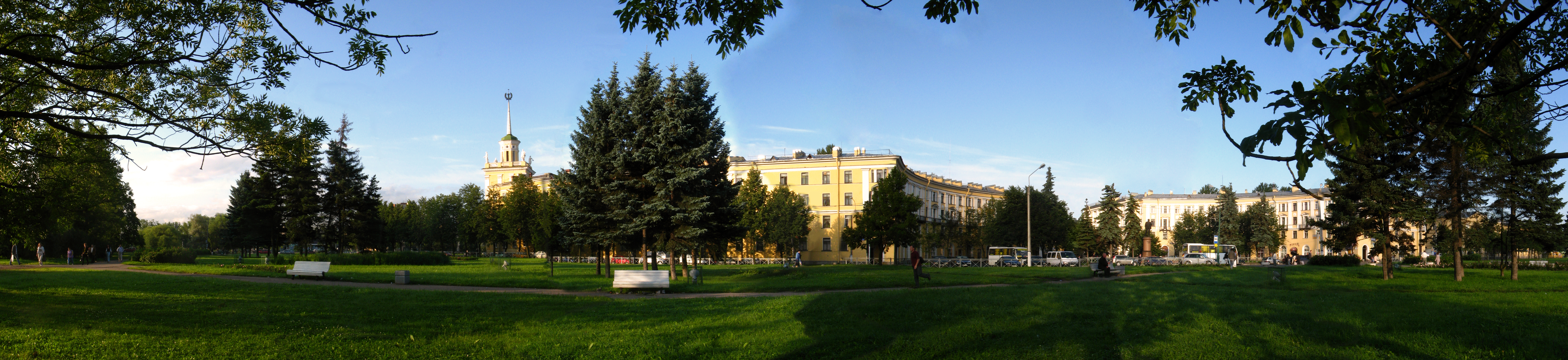 Privokzalnaya square, the summer panoramic view, Kolpino.